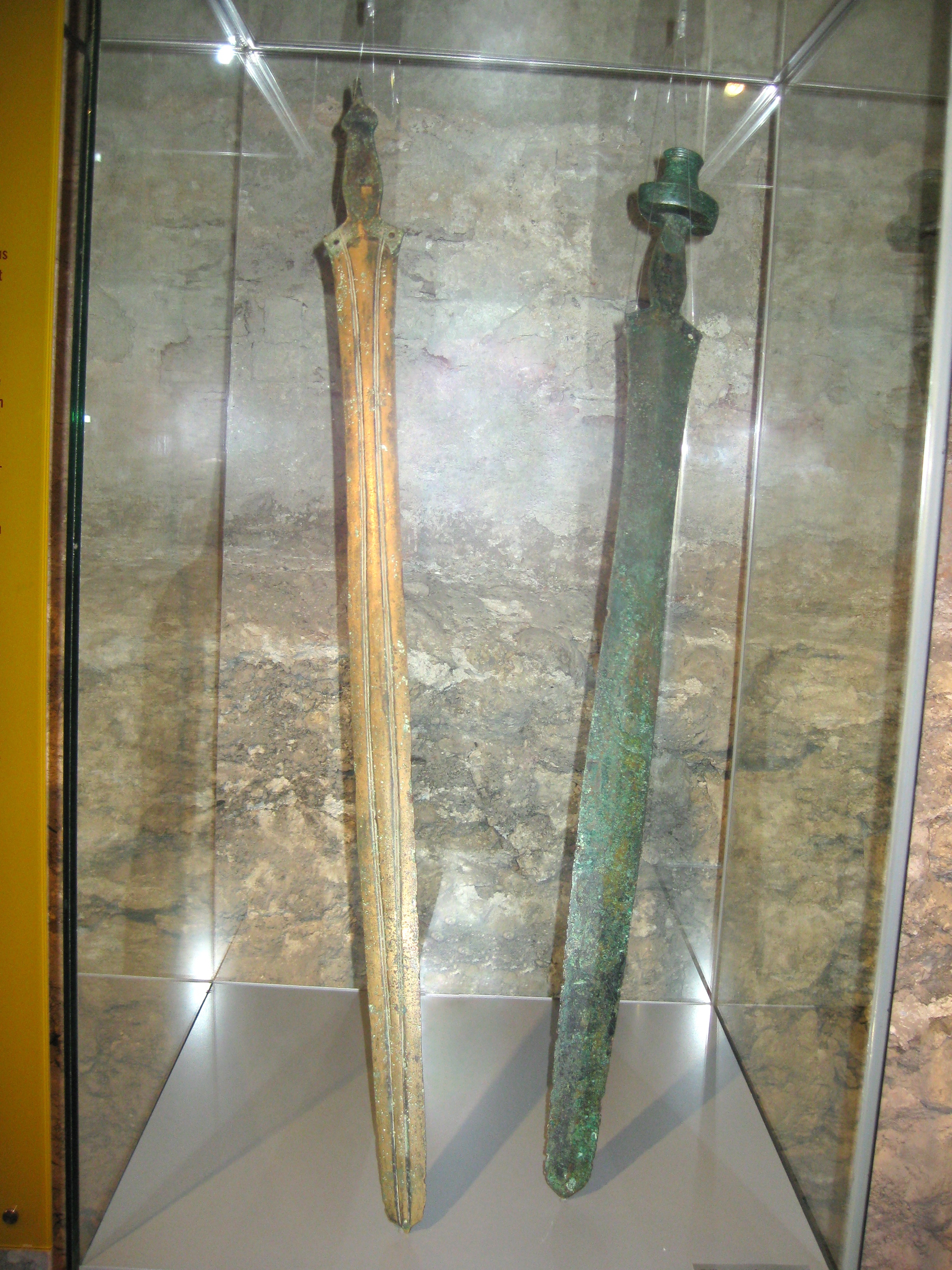 Hallstatt 'C' Swords in Wels Museum, Upper Austria.